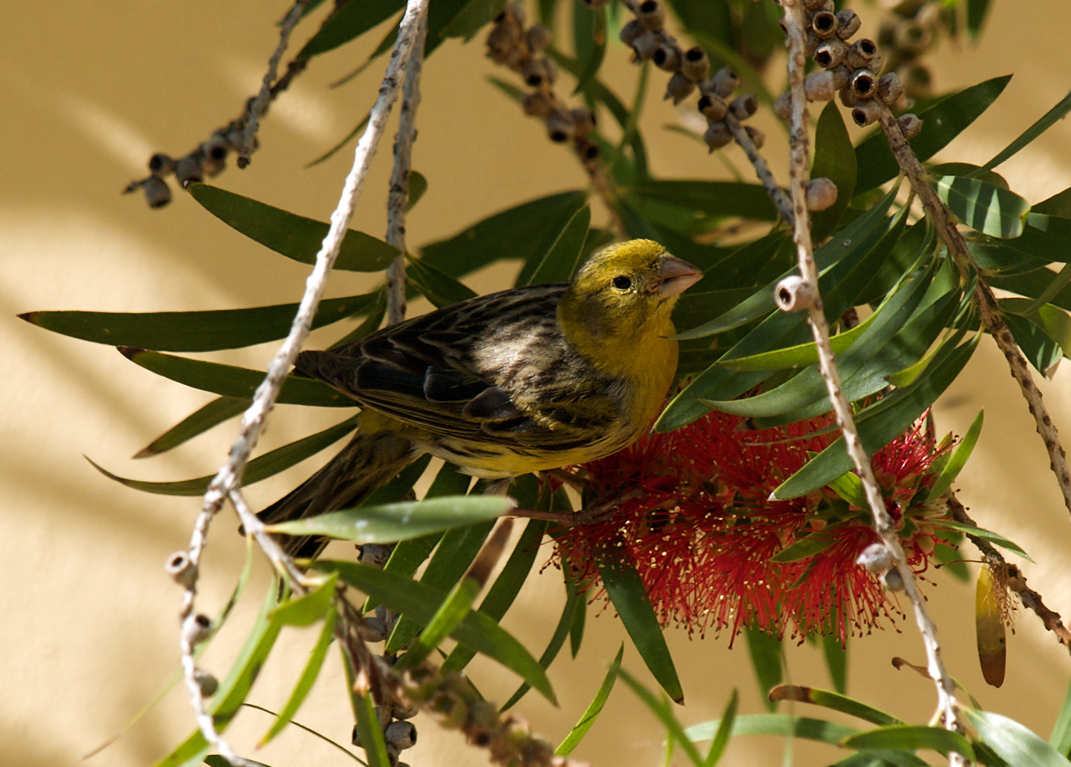 Canary (Serinus canaria), Los Realejos, Tenerife, Spain